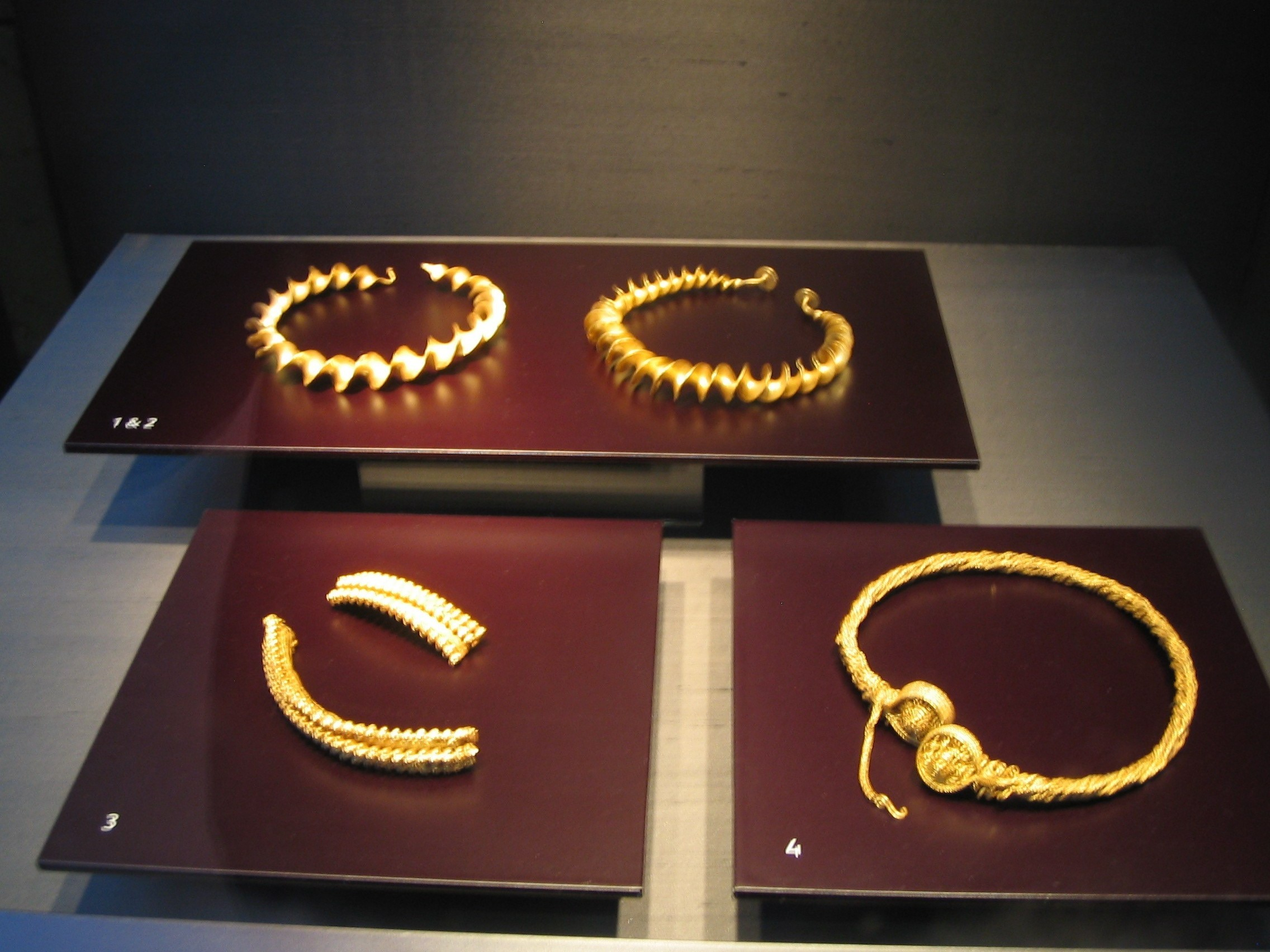 Picture of a set of four golden torcs discovered Stirlingshire Scotland 2009.